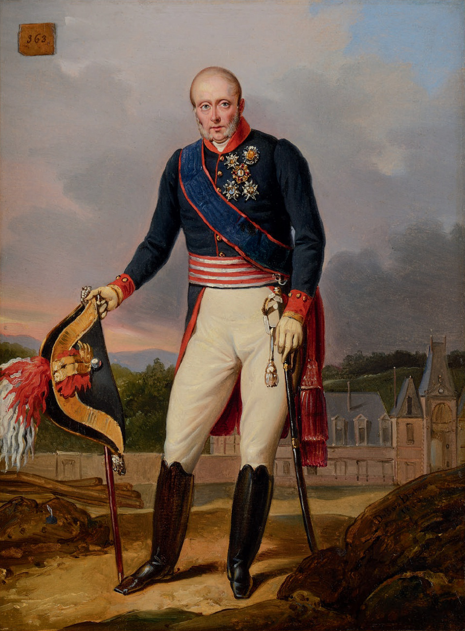 Francis I of the Two Sicilies in the gardens of the Élysée Palace of Paris, 1830. Le roi François Ier des Deux-Siciles est figuré en pied et en uniforme sur fond de paysage, tandis que sa femme est vêtue d'une robe blanche avec une volumineuse coiffe bleue d'inspiration ottomane. La reine des Deux-Siciles est représentée en pied dans les jardins du palais de l'Elysée, que l'on reconnait au second plan à gauche et à droite, et qui fut le lieu de résidence du roi et de la reine des Deux-Siciles pendant leur séjour en France de mai à juillet 1830. Une visite royale qui fut l'occasion de fêtes aussi nombreuses que brillantes et qui se doublait d'une rencontre de famille. Le roi François Ier des Deux-Siciles était le père de la duchesse de Berry et le frère de Marie-Amélie de Bourbon, duchesse d'Orléans.